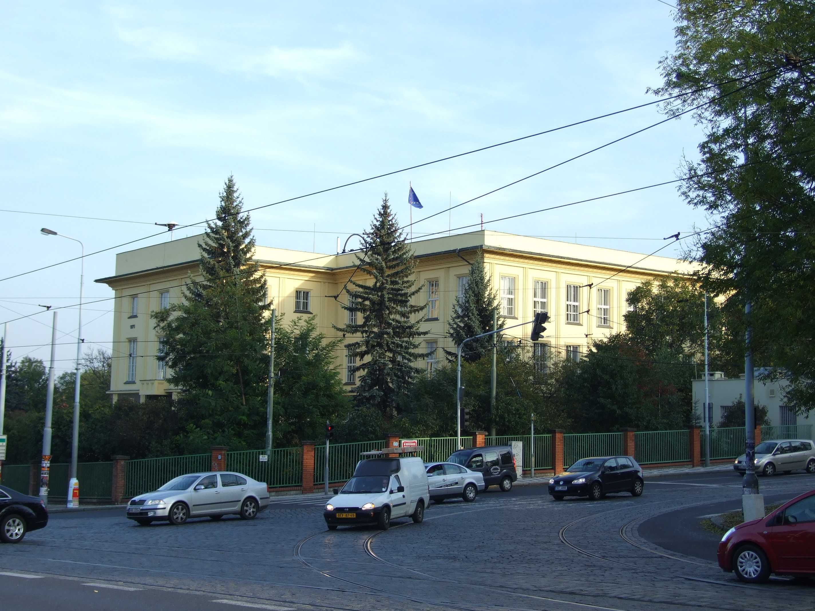 Josef Rosipal: Municipal Orphanage (1911-1912), now building of Ministry of Culture of the Czech Republic.